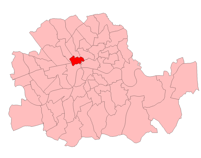 A map of Holborn constituency within the London County Council area, as it existed from 1918 to 1949.